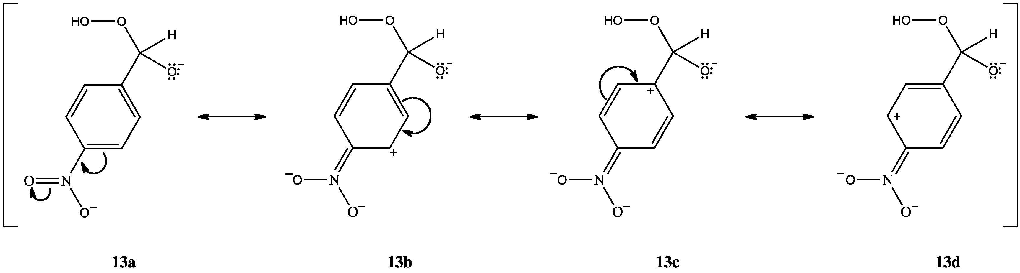 para-nitro benzaldehyde resonance structures